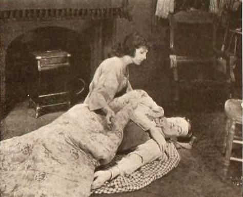 Still from the American film The Invisible Divorce (1920) with Leatrice Joy and Walter McGrail, on page 2941 of the March 27, 1920 Motion Picture News.